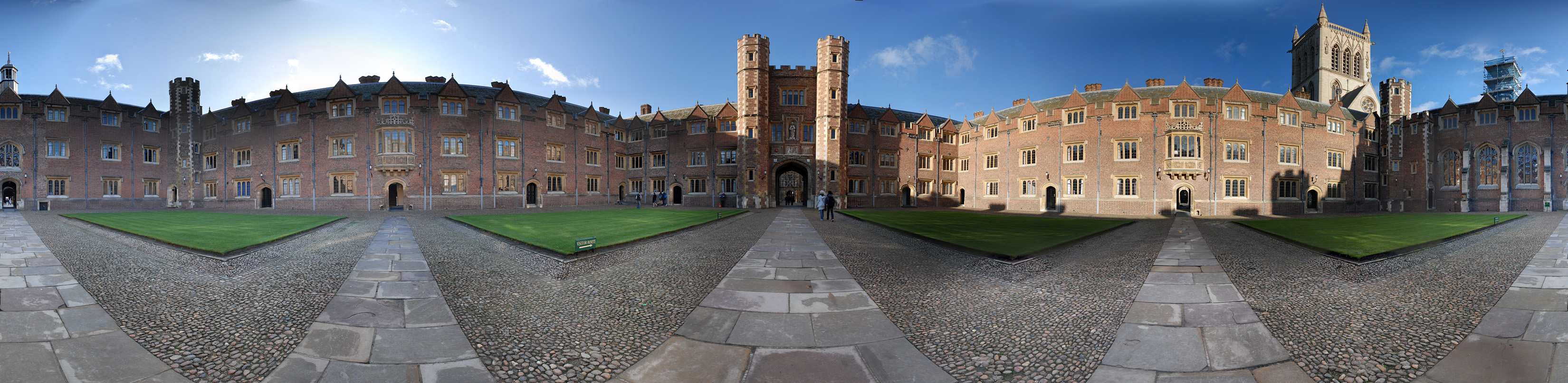 Panorama of Second Court